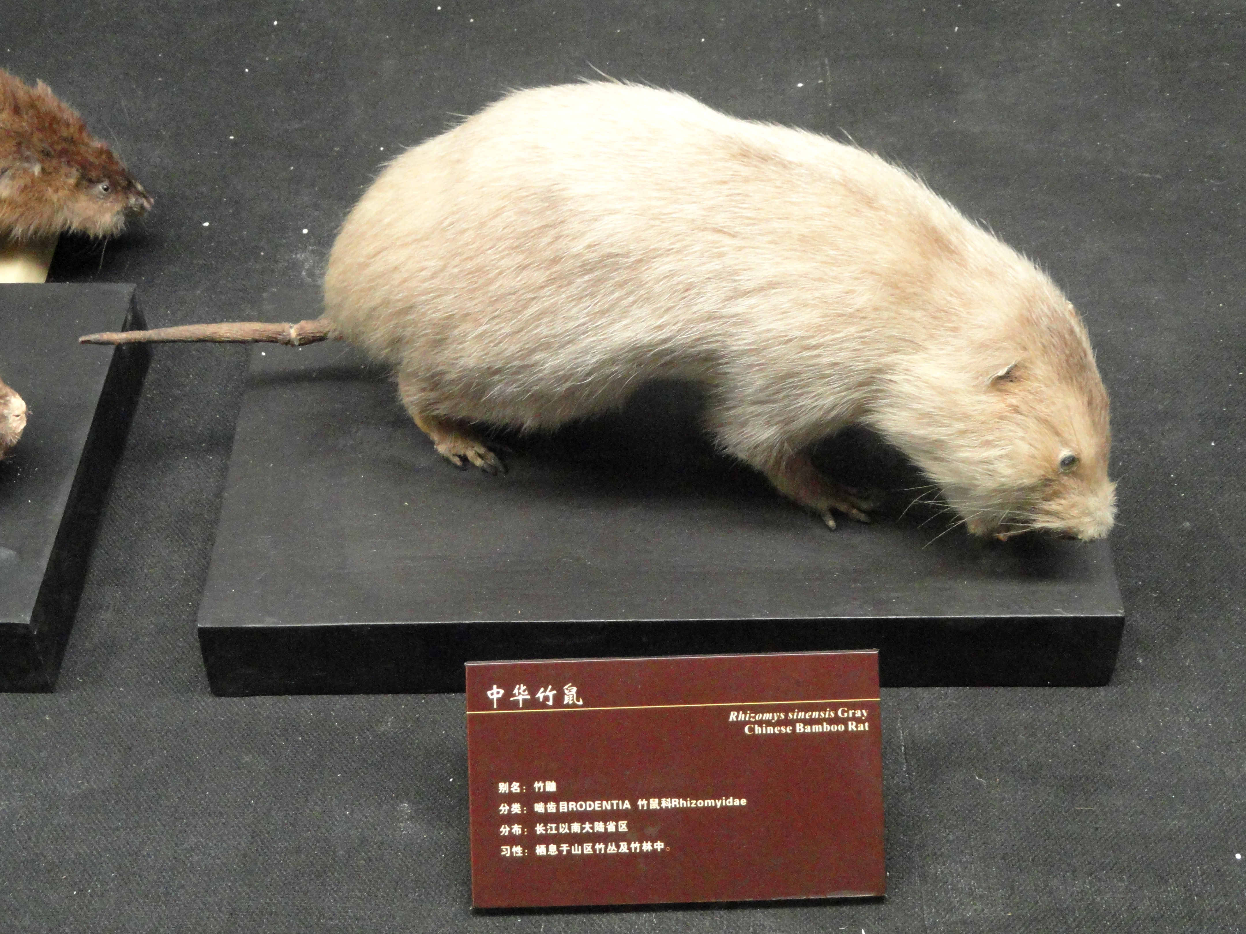 Taxidermy exhibit in the Kunming Natural History Museum of Zoology (昆明动物博物馆), Kunming, Yunnan, China.